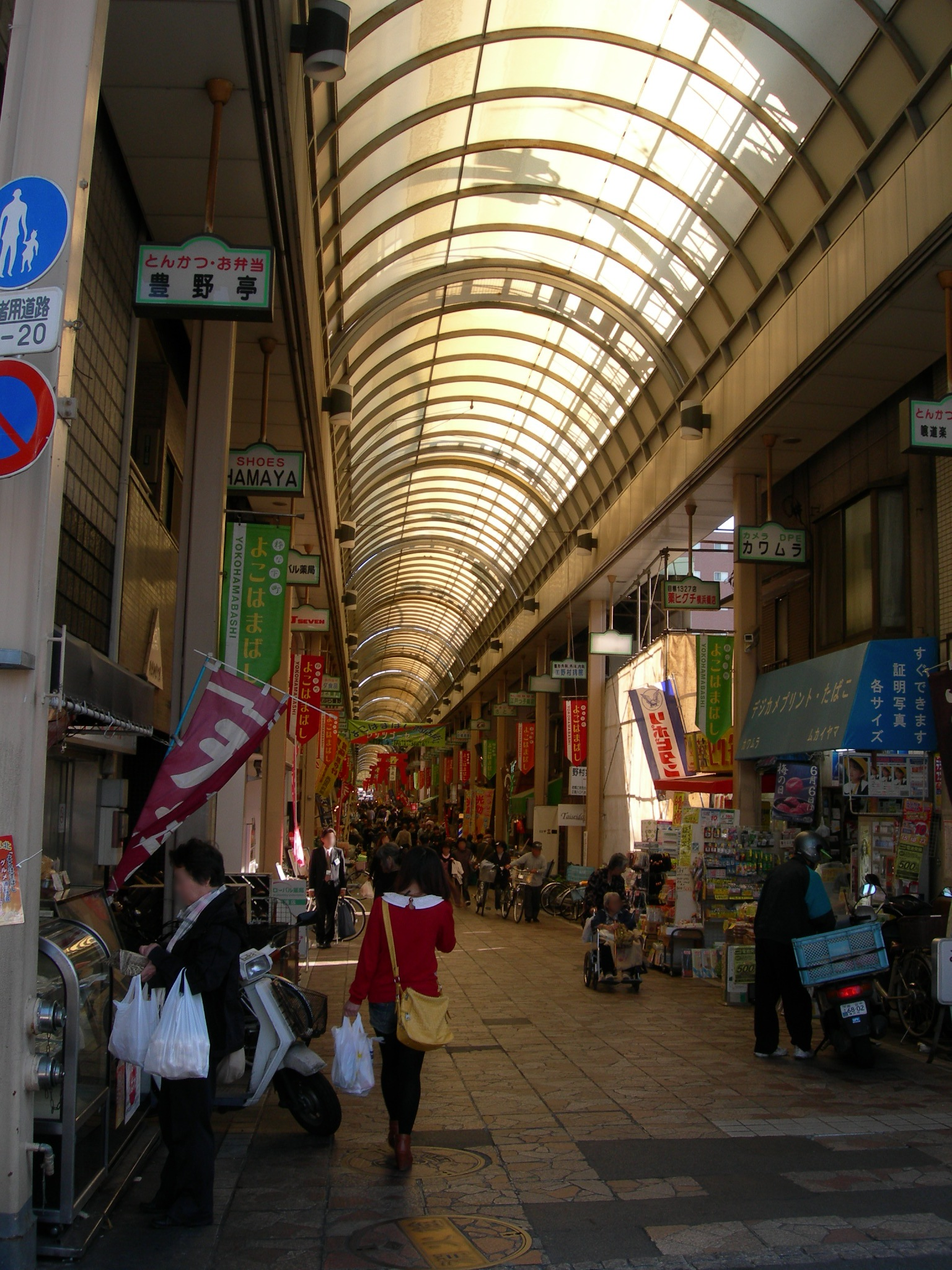 "Yokohama-Bashi Shopping district", Minami-ku, Yokohama. taken in 2011.